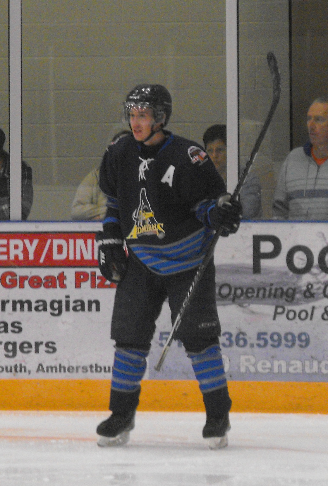 These images of GLJHL action are taken by Devan Mighton.